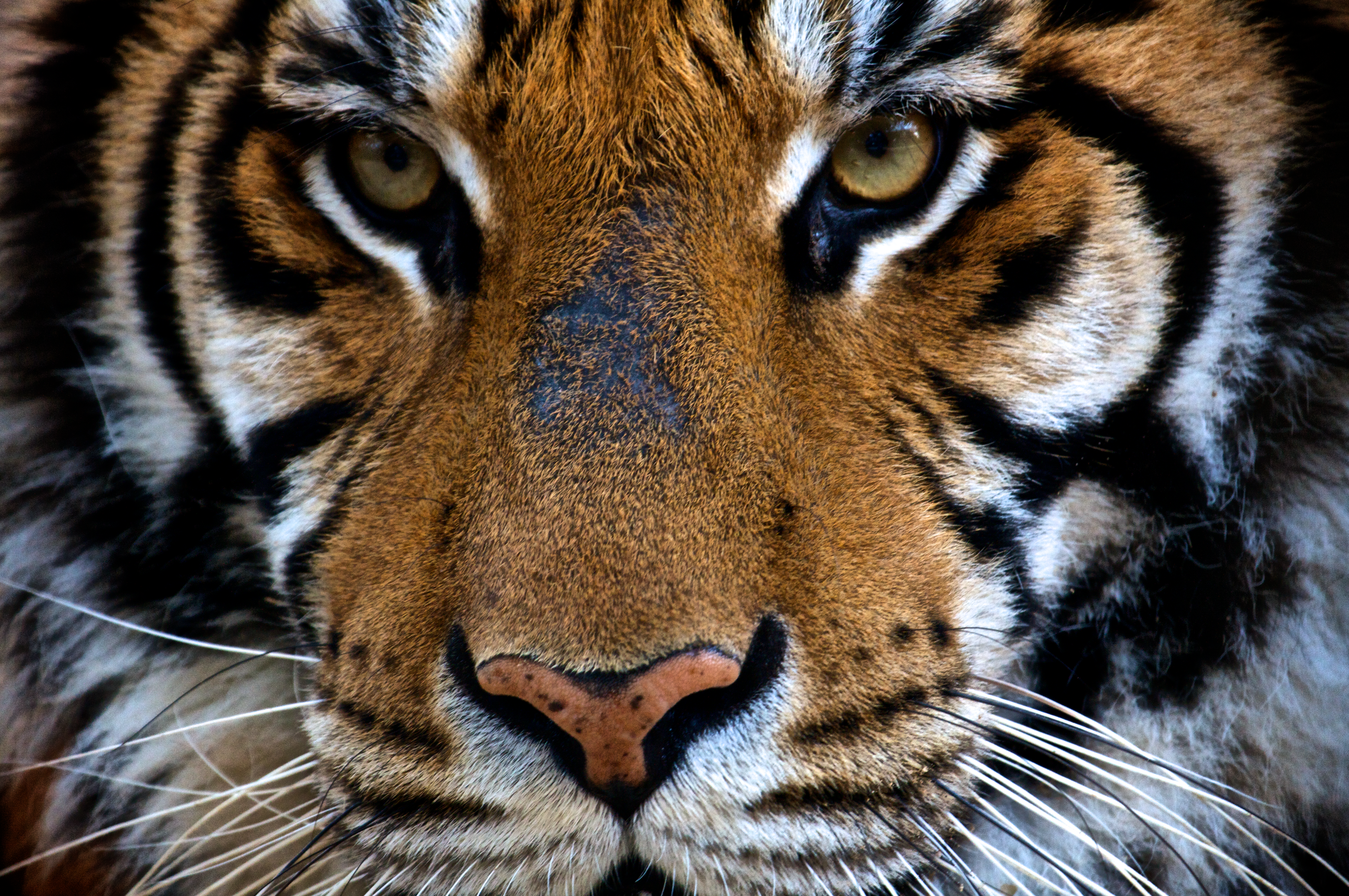 A tiger at Castellar Zoo, Spain.